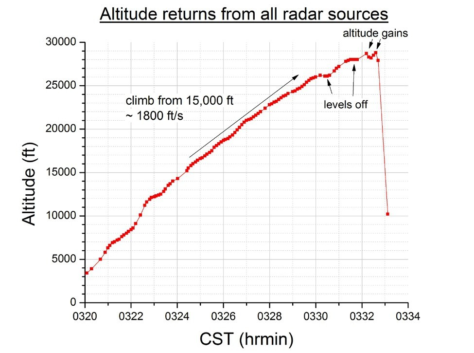 A Learjet 25 corporate jet crashed near Iturbide, Mexico while en route on a flight between Monterrey and Toluca Airport, Mexico.